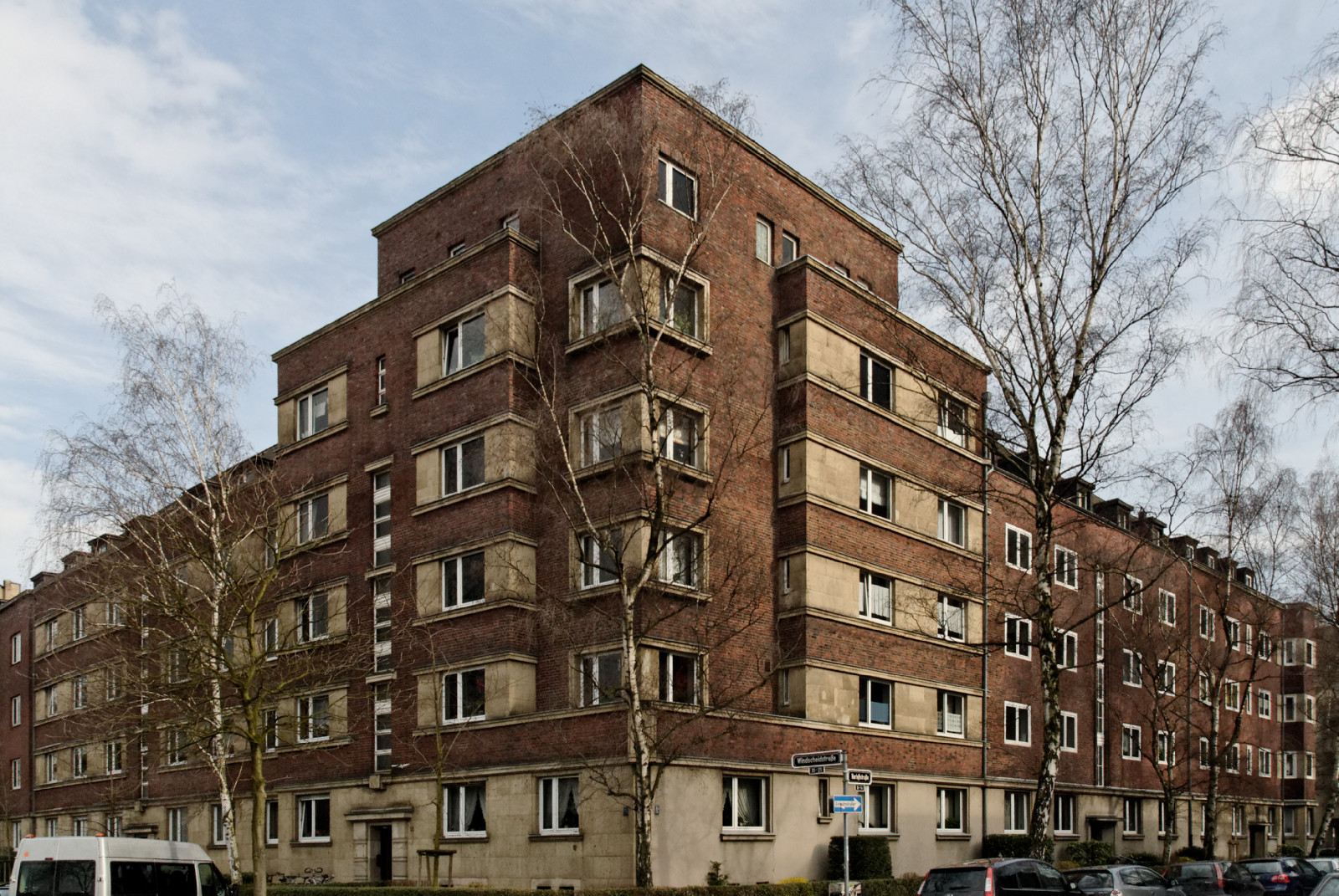 Houses Windscheidstraße 25 to 31 and Harleßstraße in Düsseldorf-Düsseltal, Germany